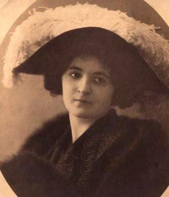 wife of Mr.Otsusky